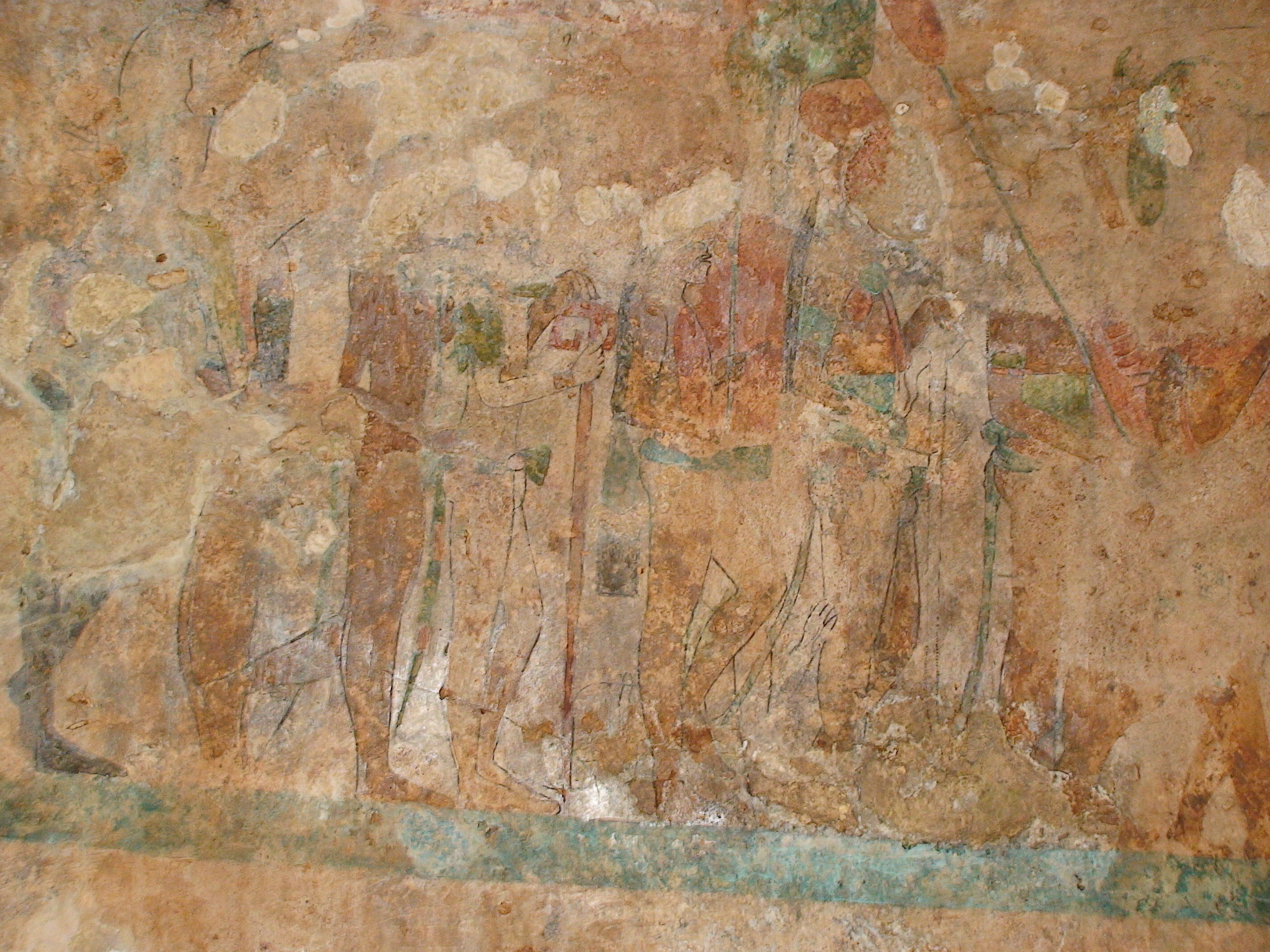 Chacmultun, Yucatan, Mexico: Group Chacmultun, mural